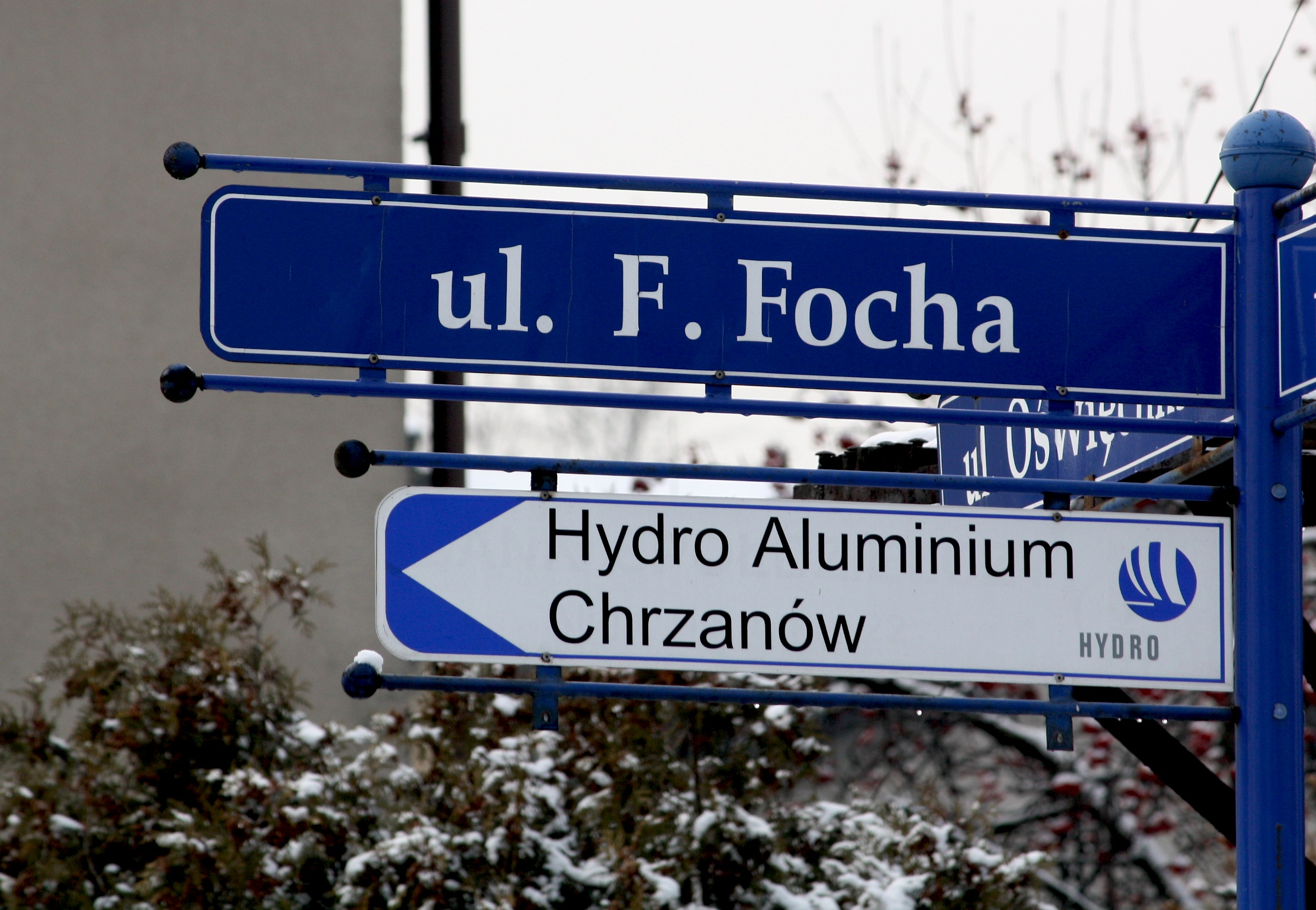 Marshal Ferdinand Foch Street in Chrzanów, Poland